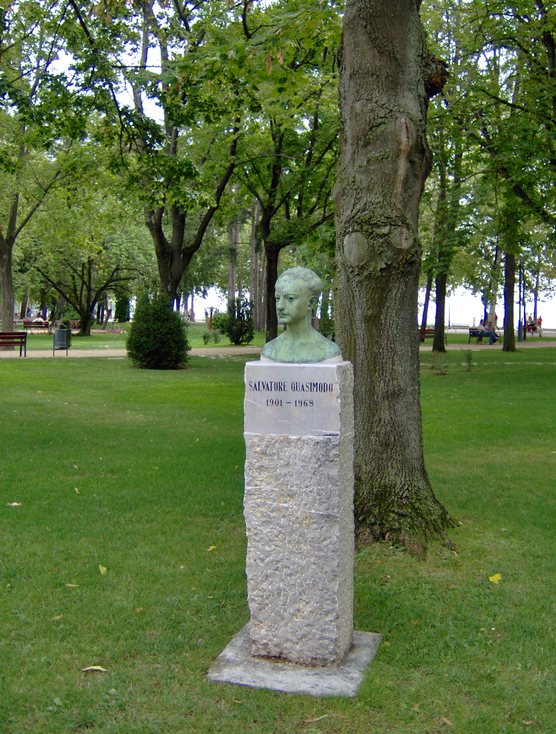 Salvatore Quasimodo, Balatonfüred